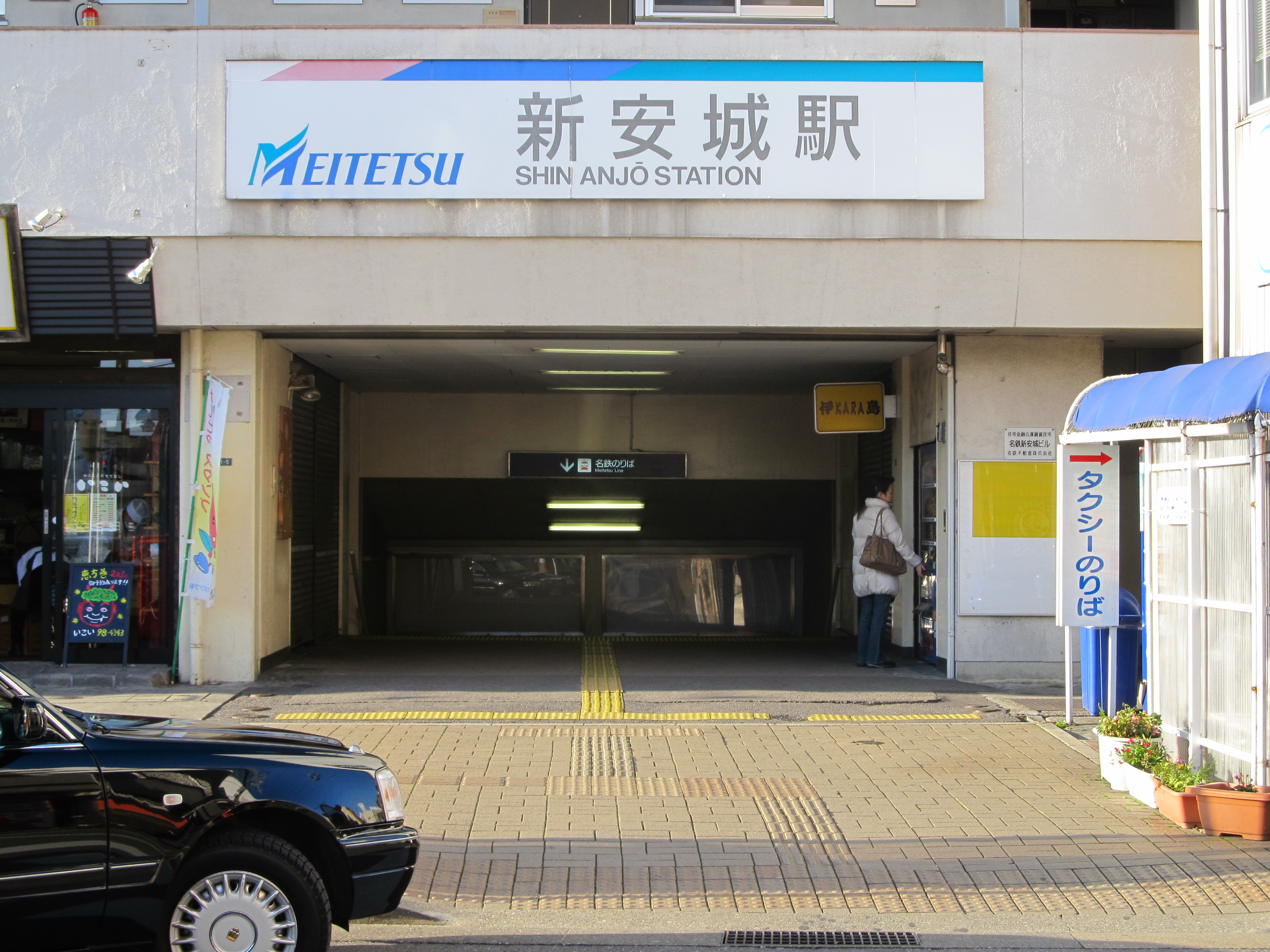 Nagoya Railroad Nagoya Main Line Shin Anjō Station North Gate